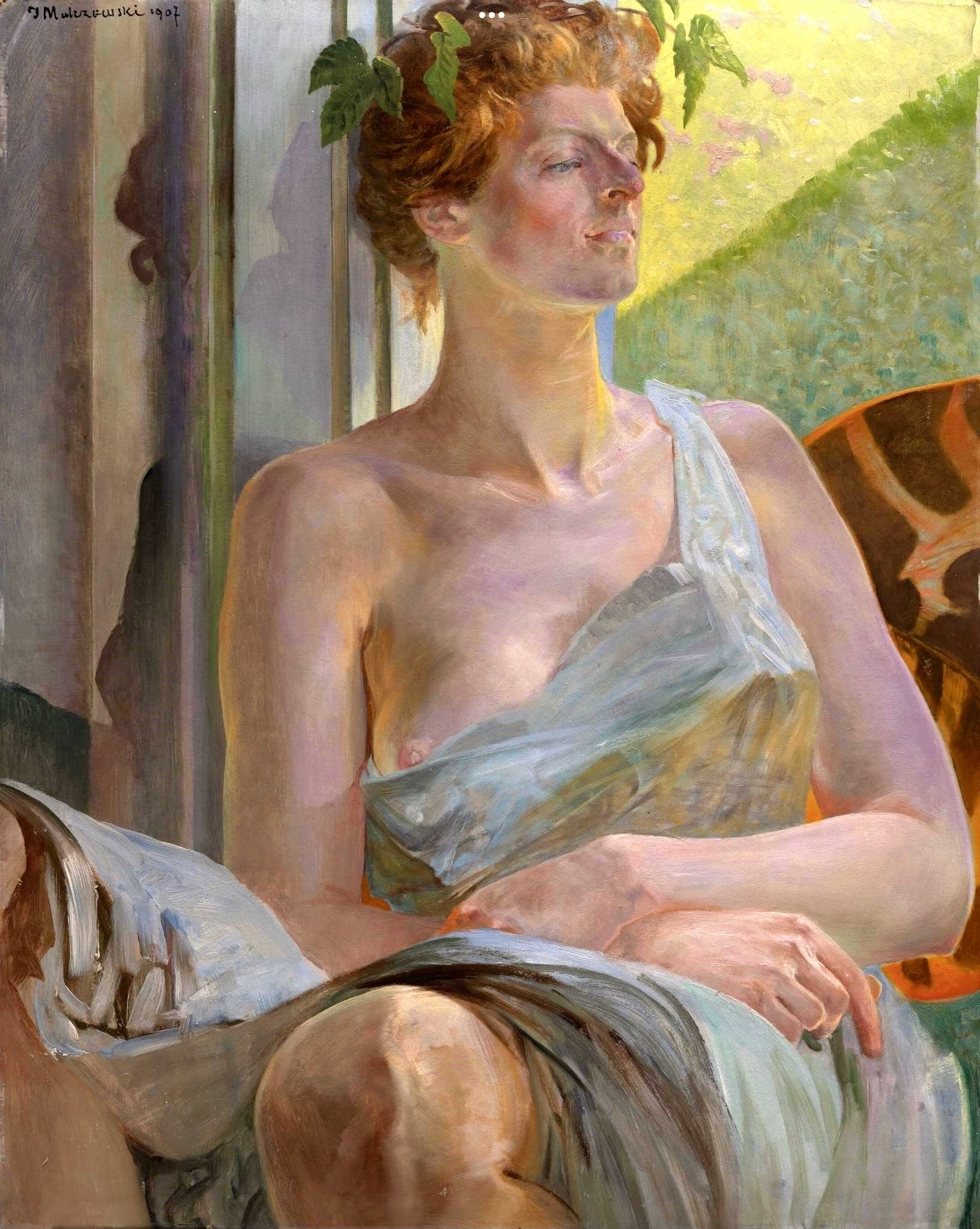 Bacchante, portrait of Maria Bal (Balowa) by Polish Symbolist painter Jacek Malczewski (1854-1929).